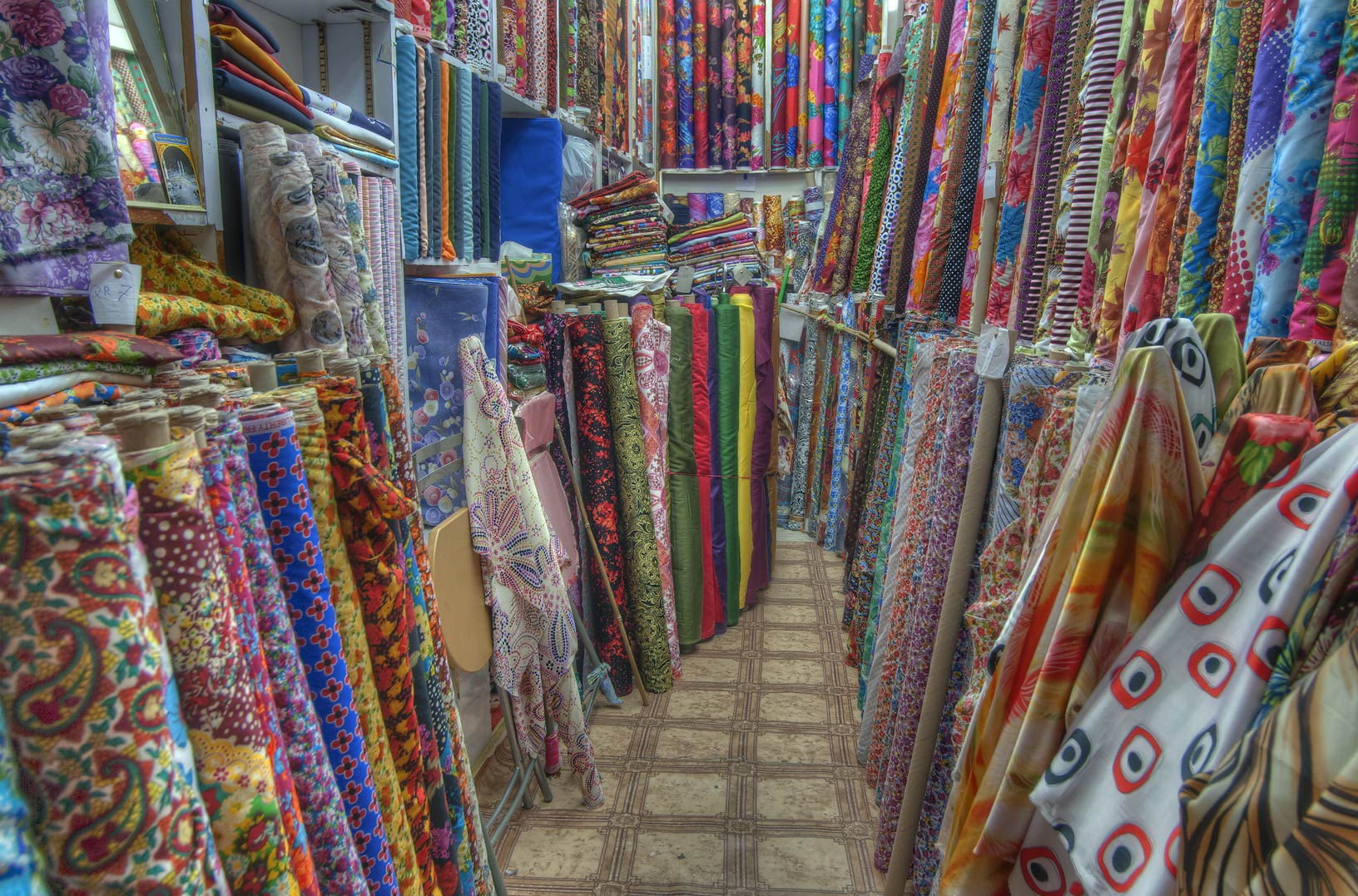 Satin fabric displays in Souq Waqif, Doha, Qatar.